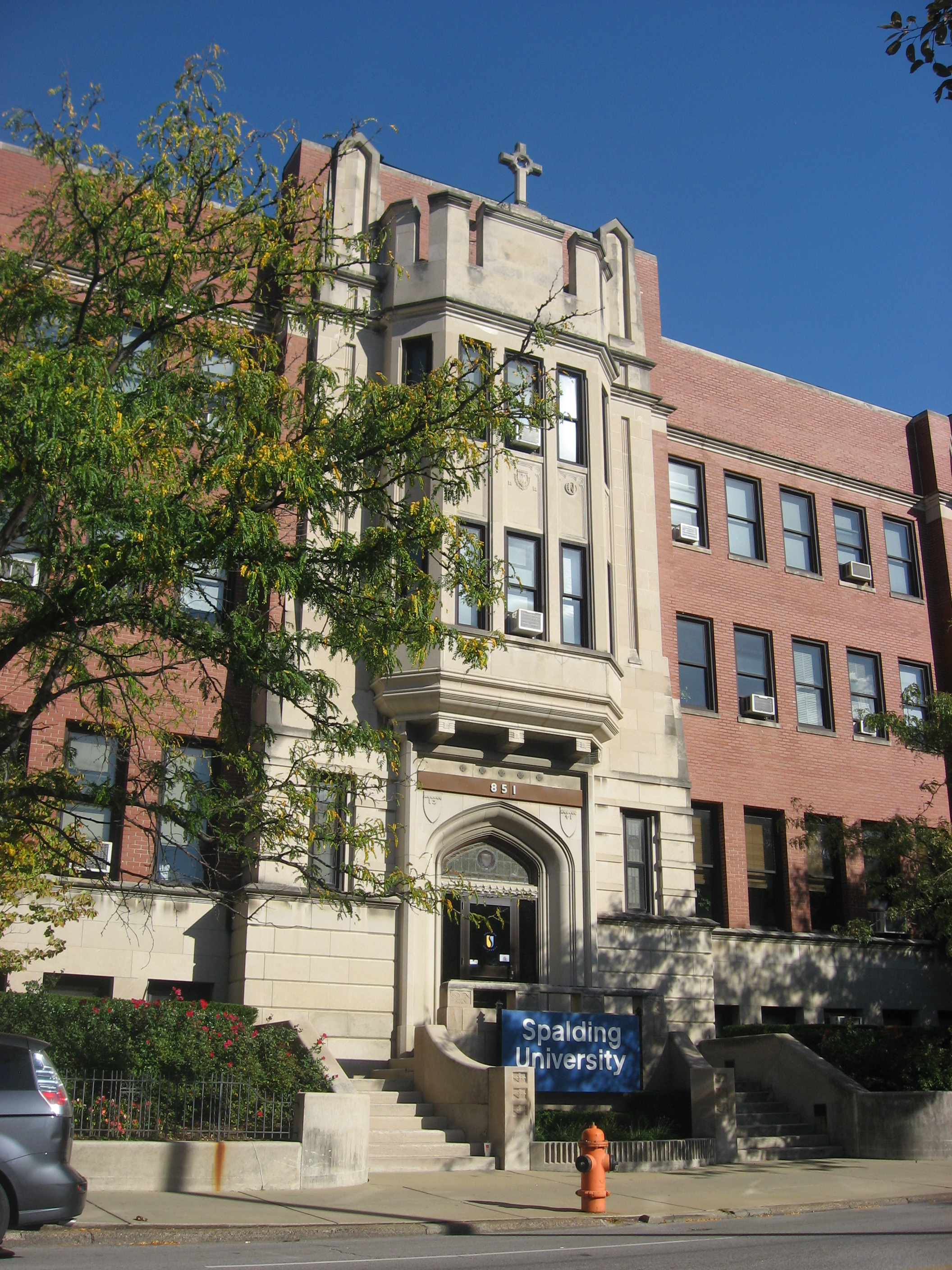 Front of the administration building at Spalding University, located at 851 S. Fourth Street in Louisville, Kentucky, United States. It is built around the core of the Topkins-Buchanan House, which was built in 1871 and is listed on the National Register of Historic Places.